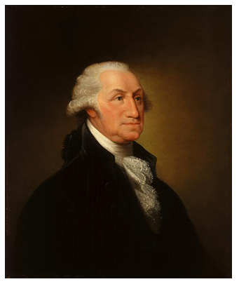 Edward Savage (painter). American, 1761 - 1817. George Washington, c. 1796. oil on canvas. overall: 76.1 x 63.3 cm (29 15/16 x 24 15/16 in.). National Gallery of Art, Washington, DC